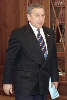 President Vladimir Putin with Nikolay Kharitonov.